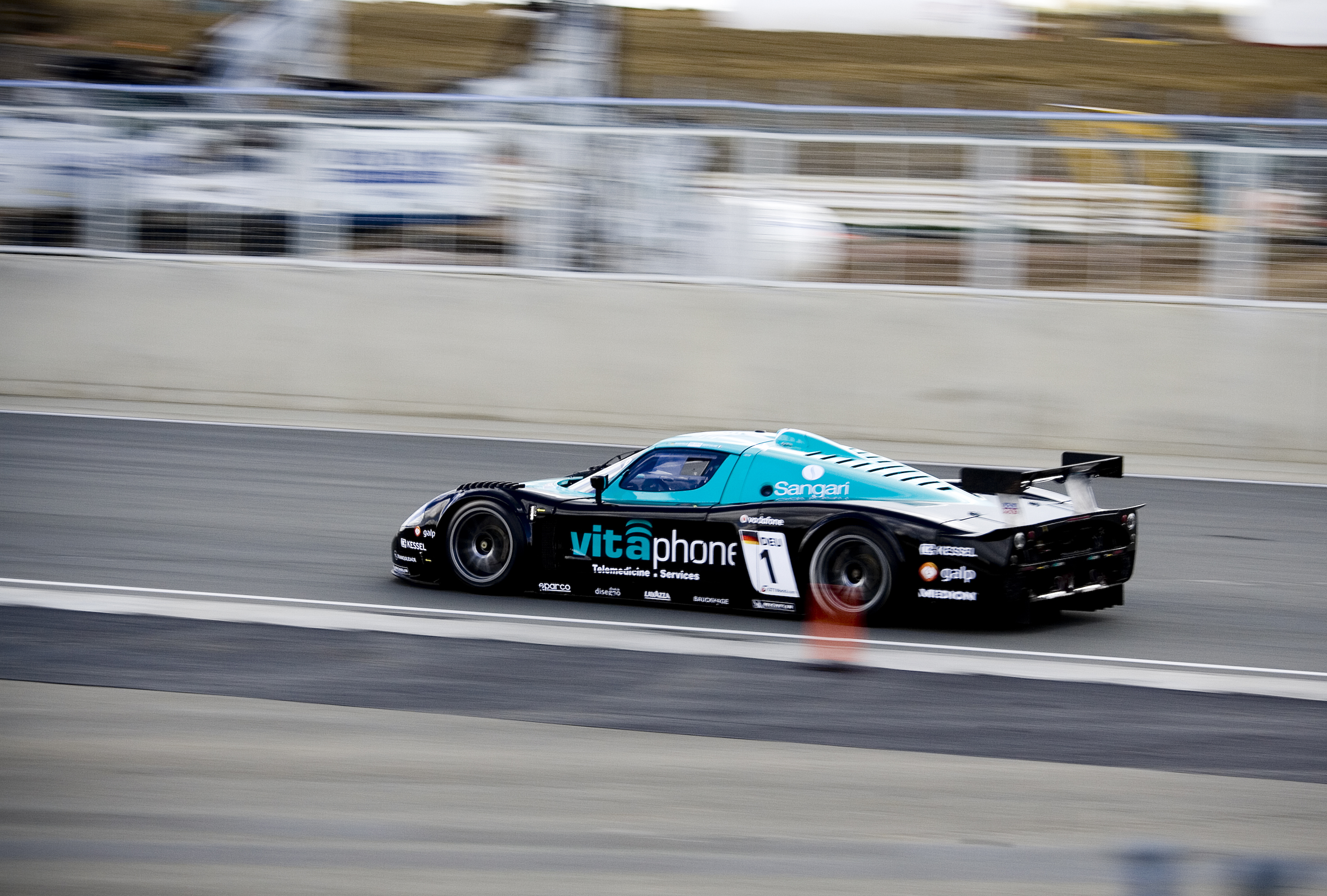 Maserati MC12 - Vitaphone Racing